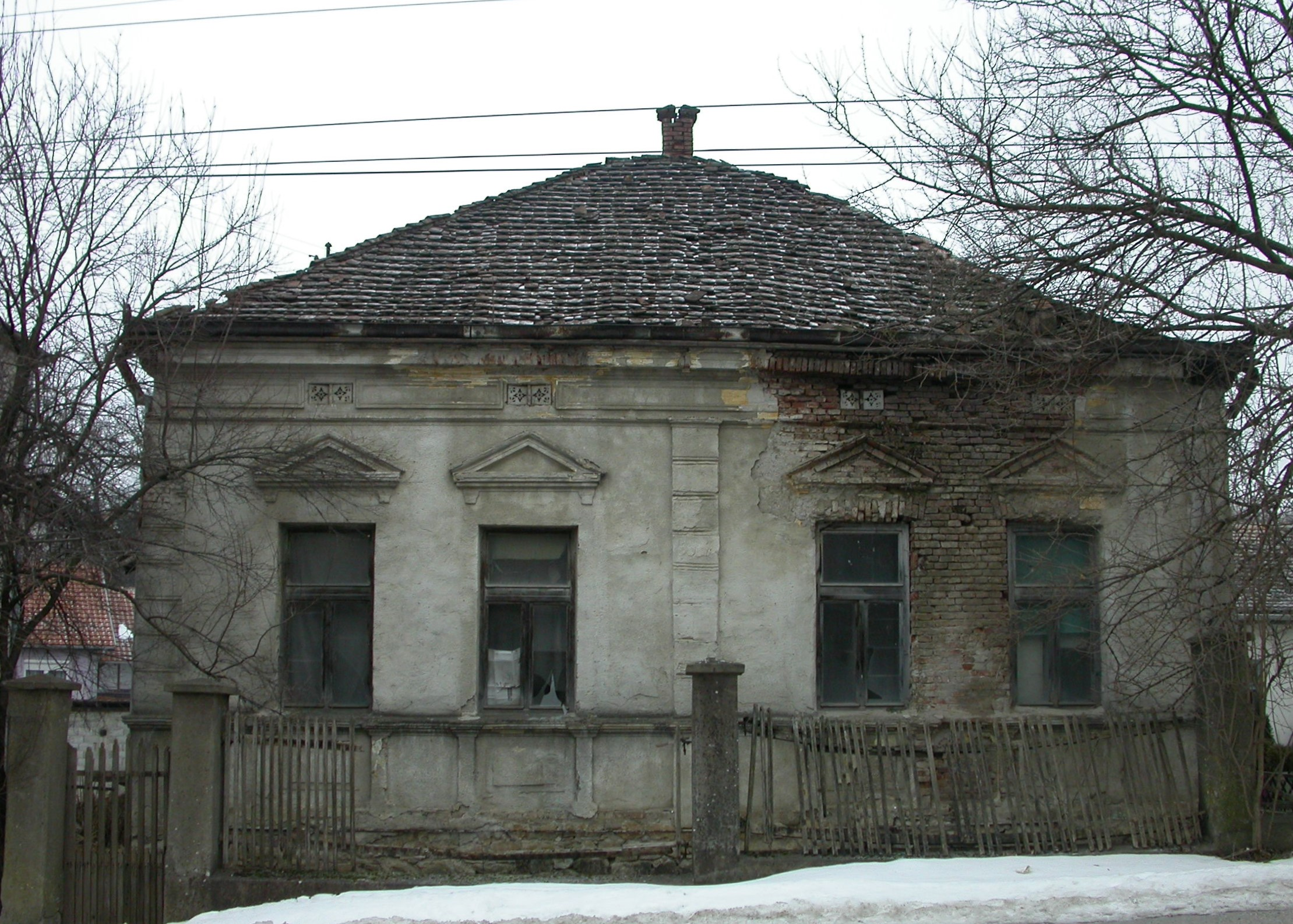 House of Dobrosav Petrović in Boljevac, general look